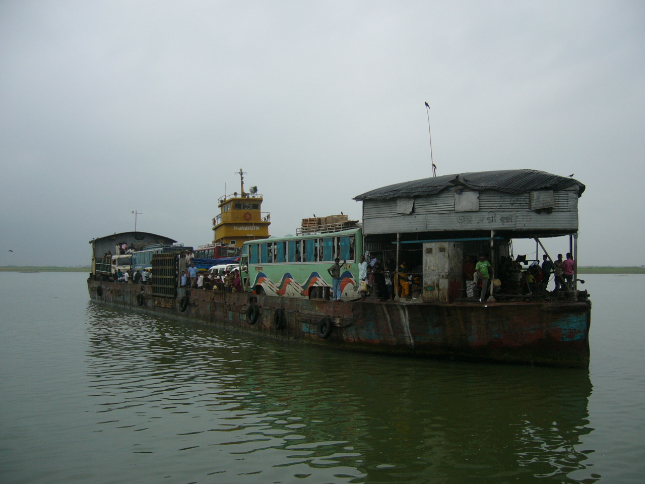 Ferry in Goalanda Ghat Faridpur Bangladesh